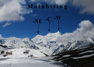 Malubiting from the North with Malubiting West (= Main summit), Malubiting Central and Malubiting North East